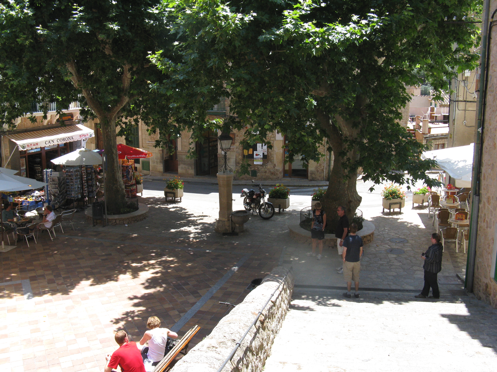 Placa d’Espagna (the main square) in the village of Fornalutx, north west Majorca, Spain.